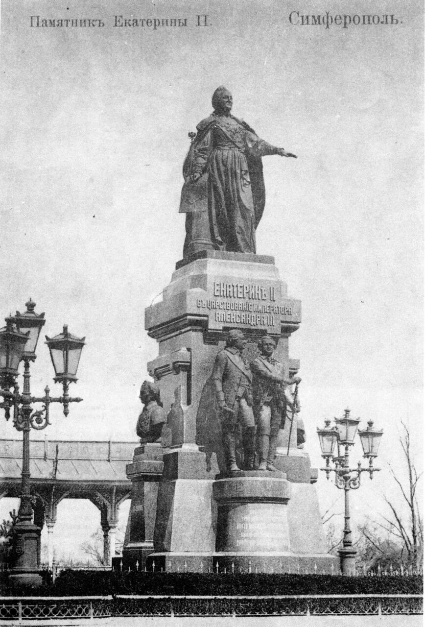 Catherine the Great monument in Simferopol